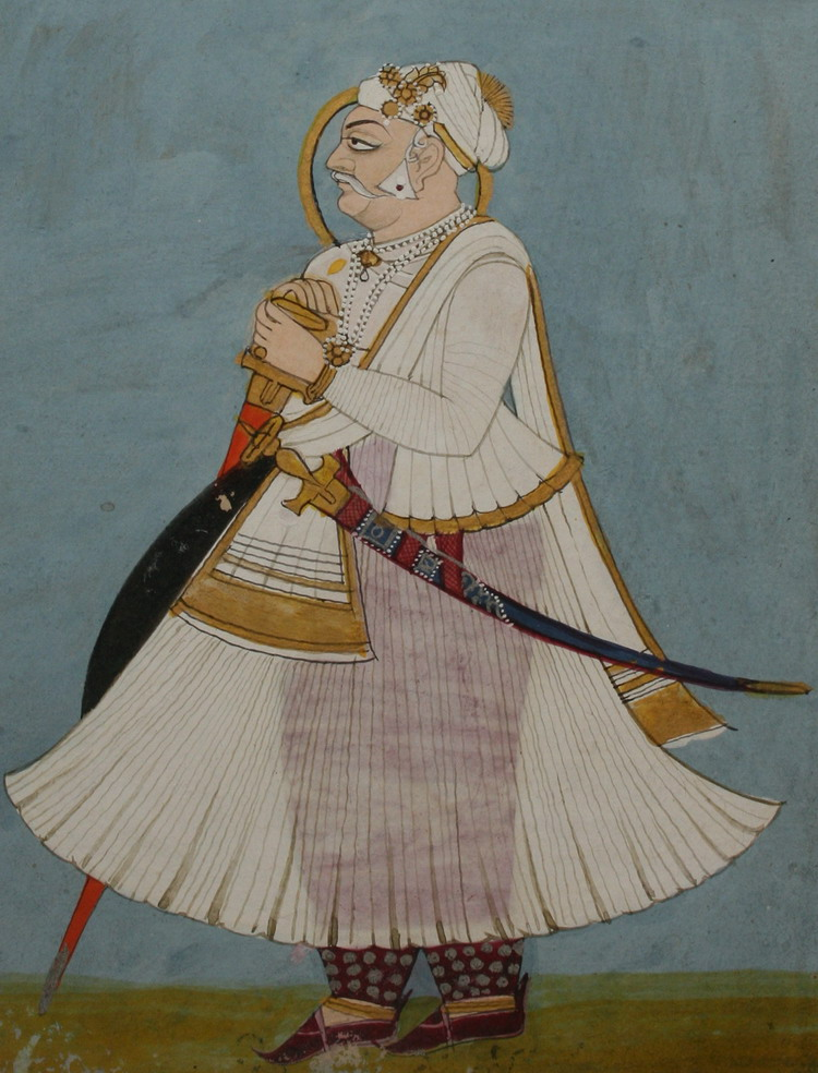 Maharaja Jaswant Singh (1629–1680) of Marwar in old age.